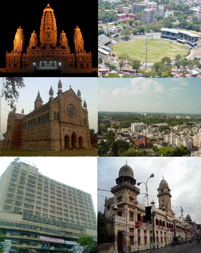 This is a skyline image of Kanpur's Places of Interest which include modern and historic buildings. Prakhar